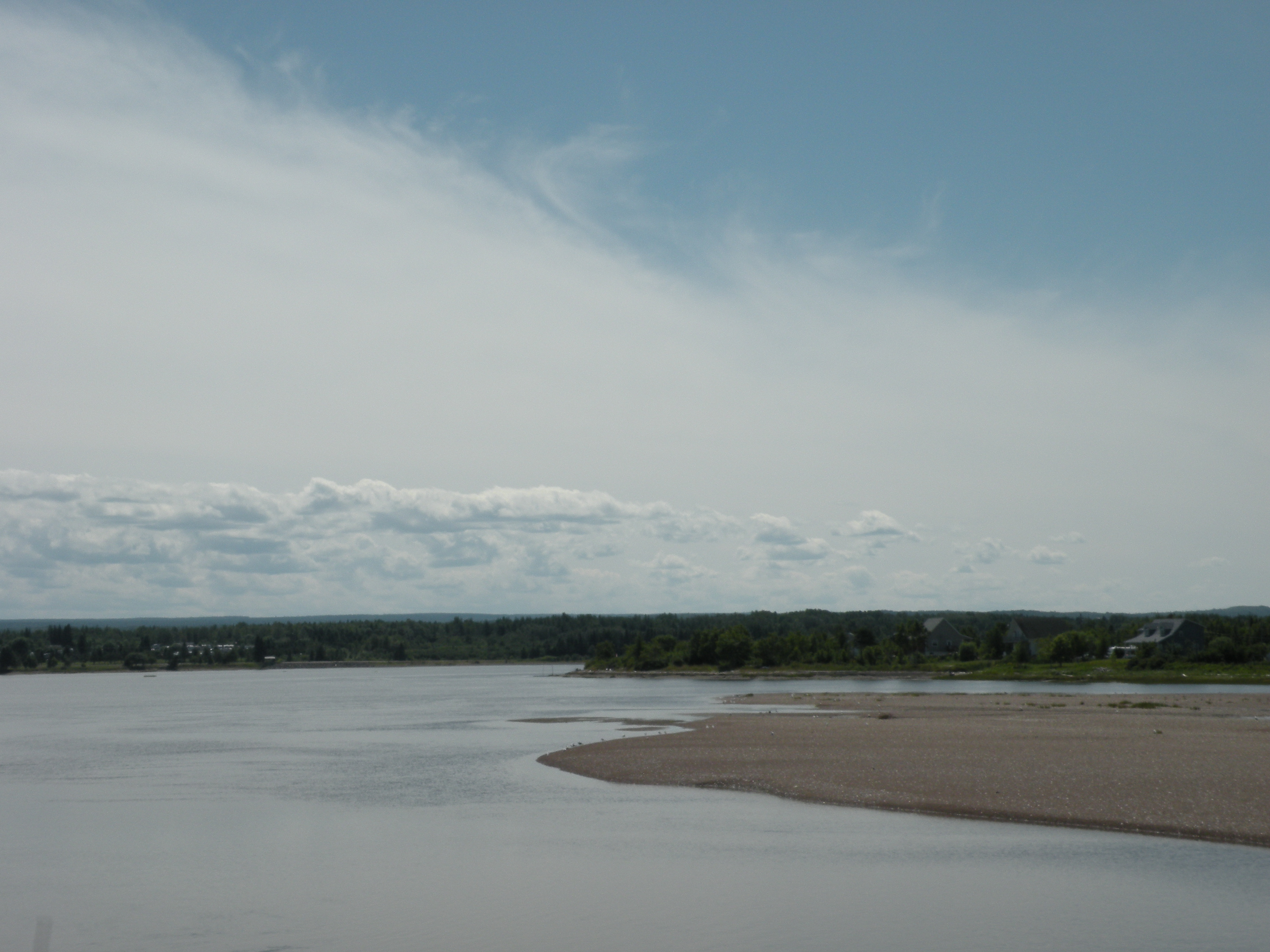 The Eel River at the Eel River Bar First Nation.